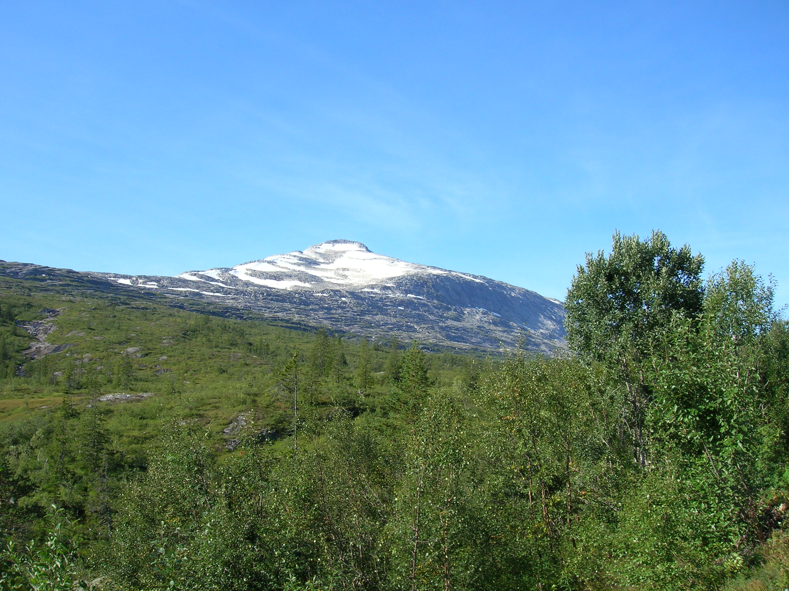 Mount Høgtuva, Rana municipality, county of Nordland, Norway, Photo 1 September, 2005 with a Nikon Coolpix 5600 5,1 Megapixel camera.